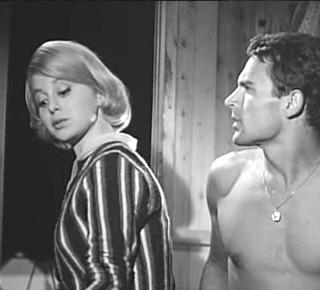 screenshot from the film Cerasella (1959)